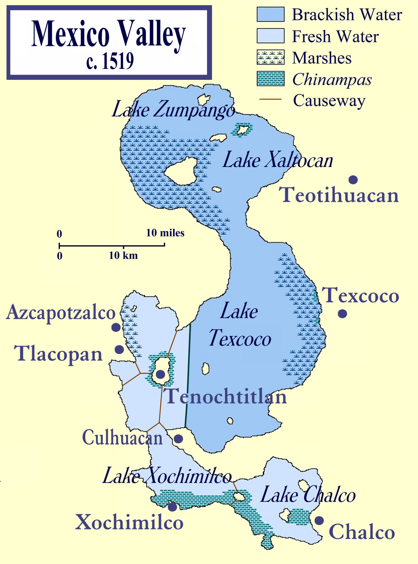 This is a map of the Valley of Mexico on the eve of the Spanish conquest of Mexico. It shows the major towns within the Valley, in particular, the island capital of the Aztecs, Tenochtitlan. The map also shows the five lakes that once existed within the Valley, highlighted to differentiate the brackish from the fresh waters. It was compiled from several sources, most prominently those listed below